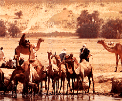 Camels and other animals trample the soil in the semiarid Sahel of Africa as they move to water holes such as this one in Chad.